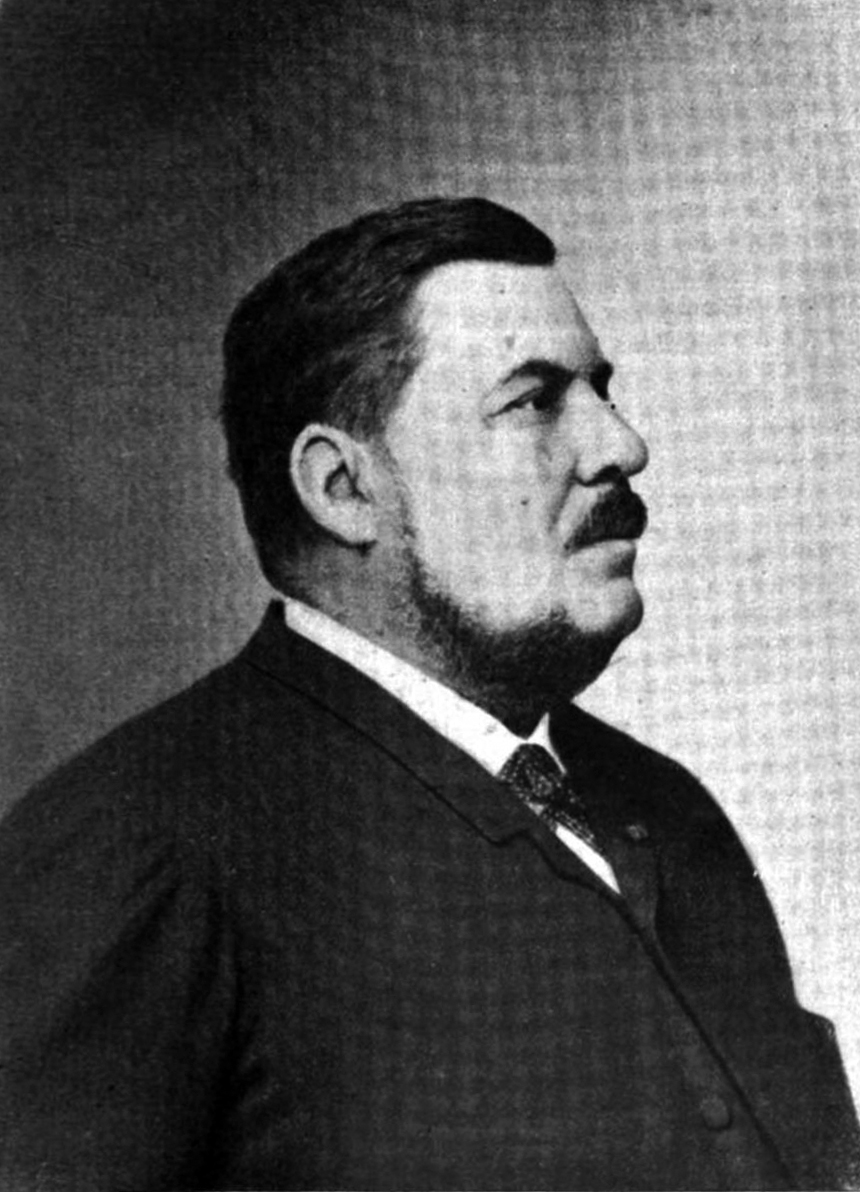 Hippolyte Marinoni (1823 – 1904), French journalist, inventor and industrialist.